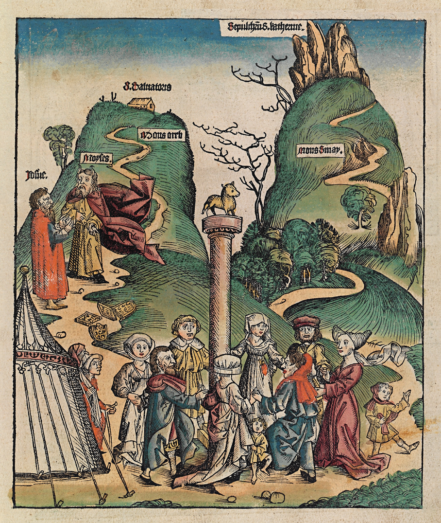 This is a part of a scan of an historical document: Title: Schedelsche Weltchronik or Nuremberg Chronicle